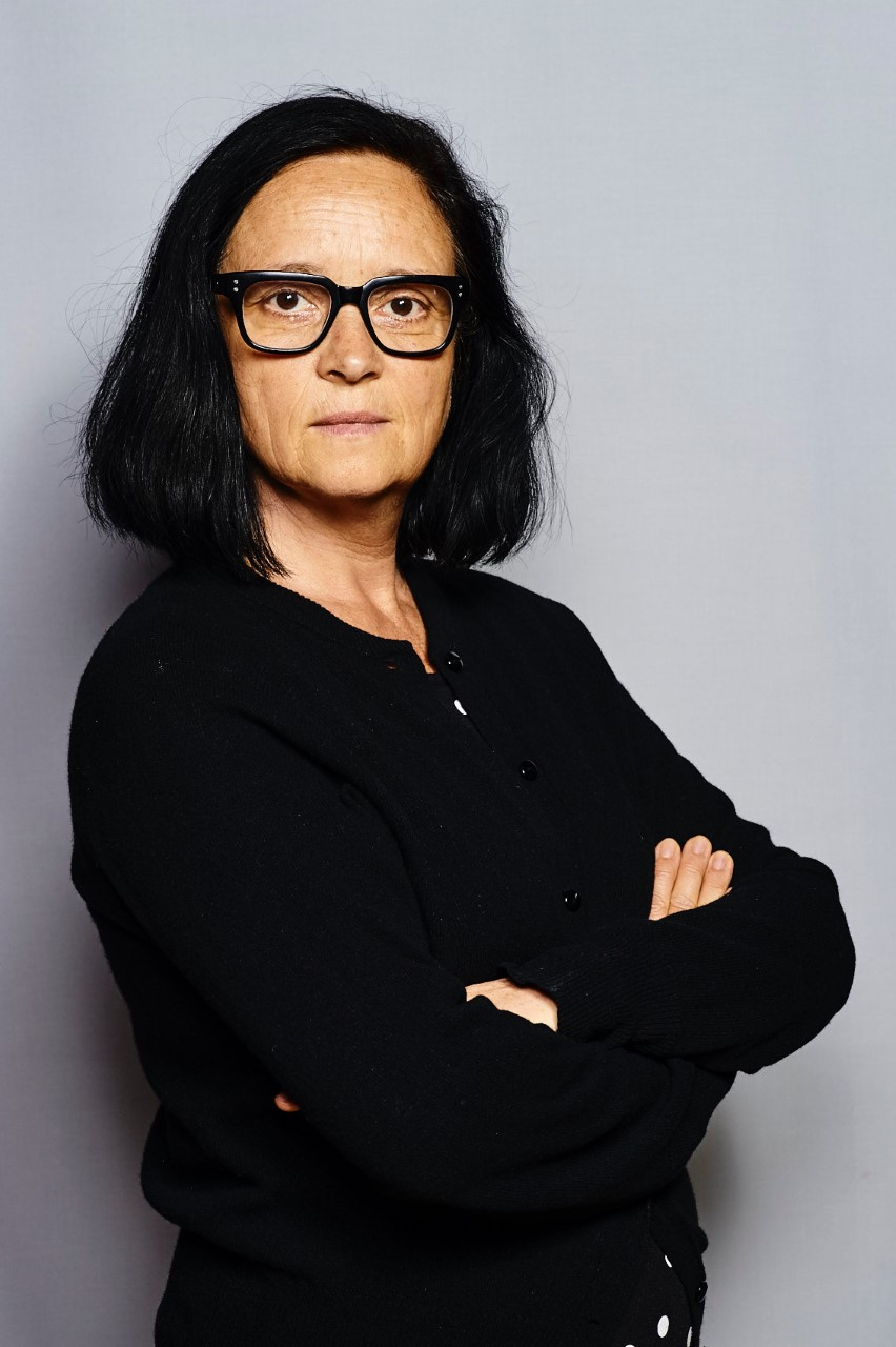 Portrait of Olga Motta